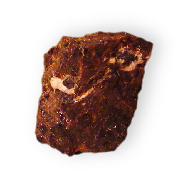 These mineral images are free to use how you wish.